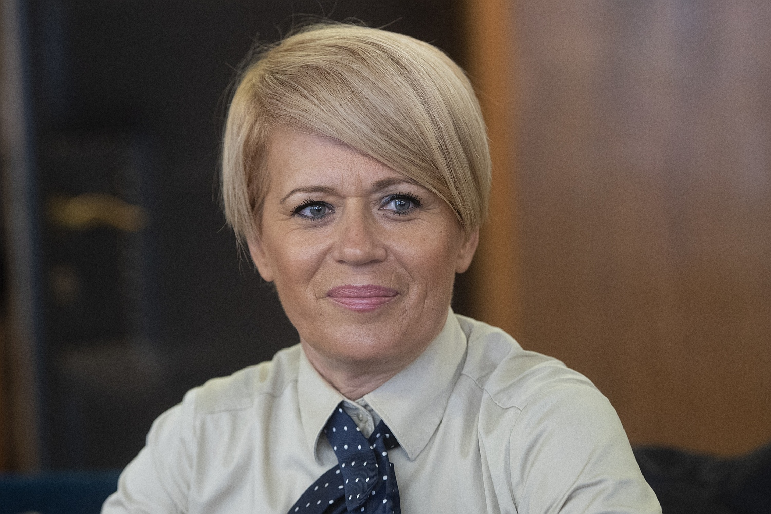 Aleksandra Pivec - Republic of Slovenia - 13th government